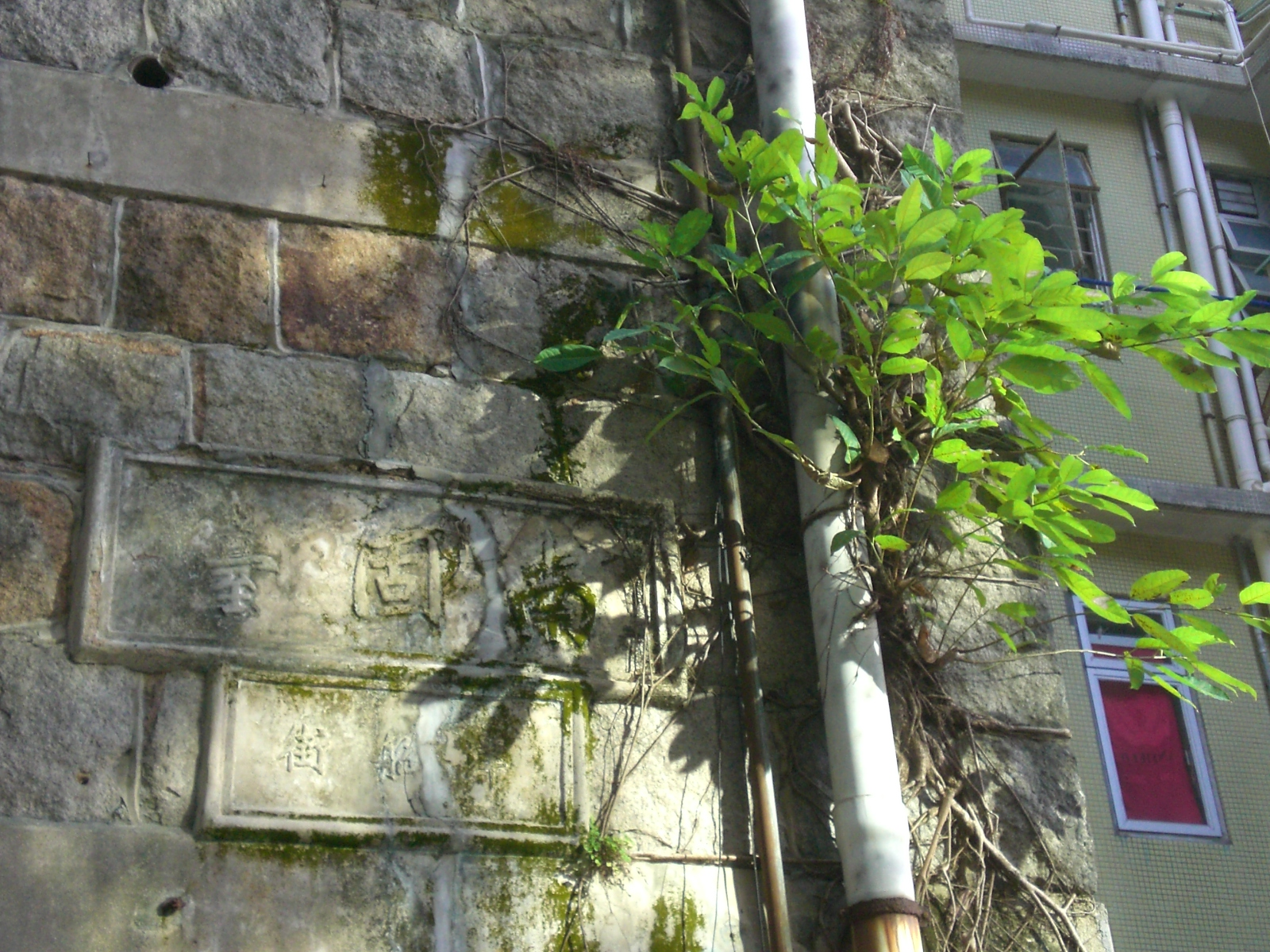 Rain gutters at Nam Koo Terrace house in Hong Kong